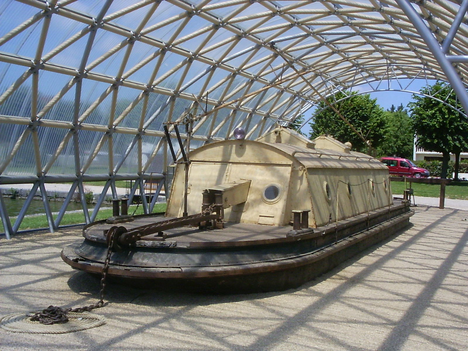 Trolleyboat used in the tunnel of the Canal of Burgundy